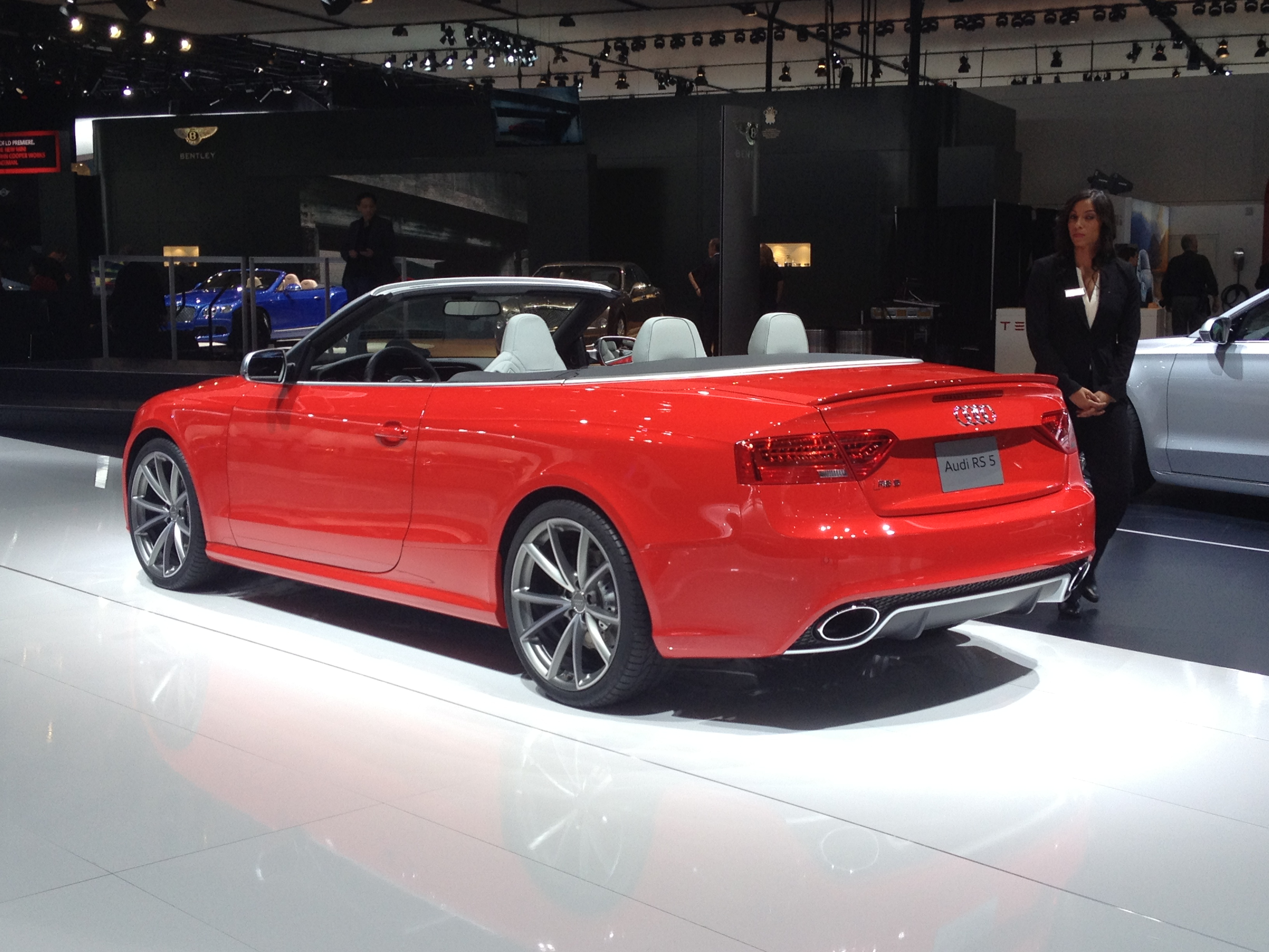 2013 North American International Auto Show Detroit, Michigan